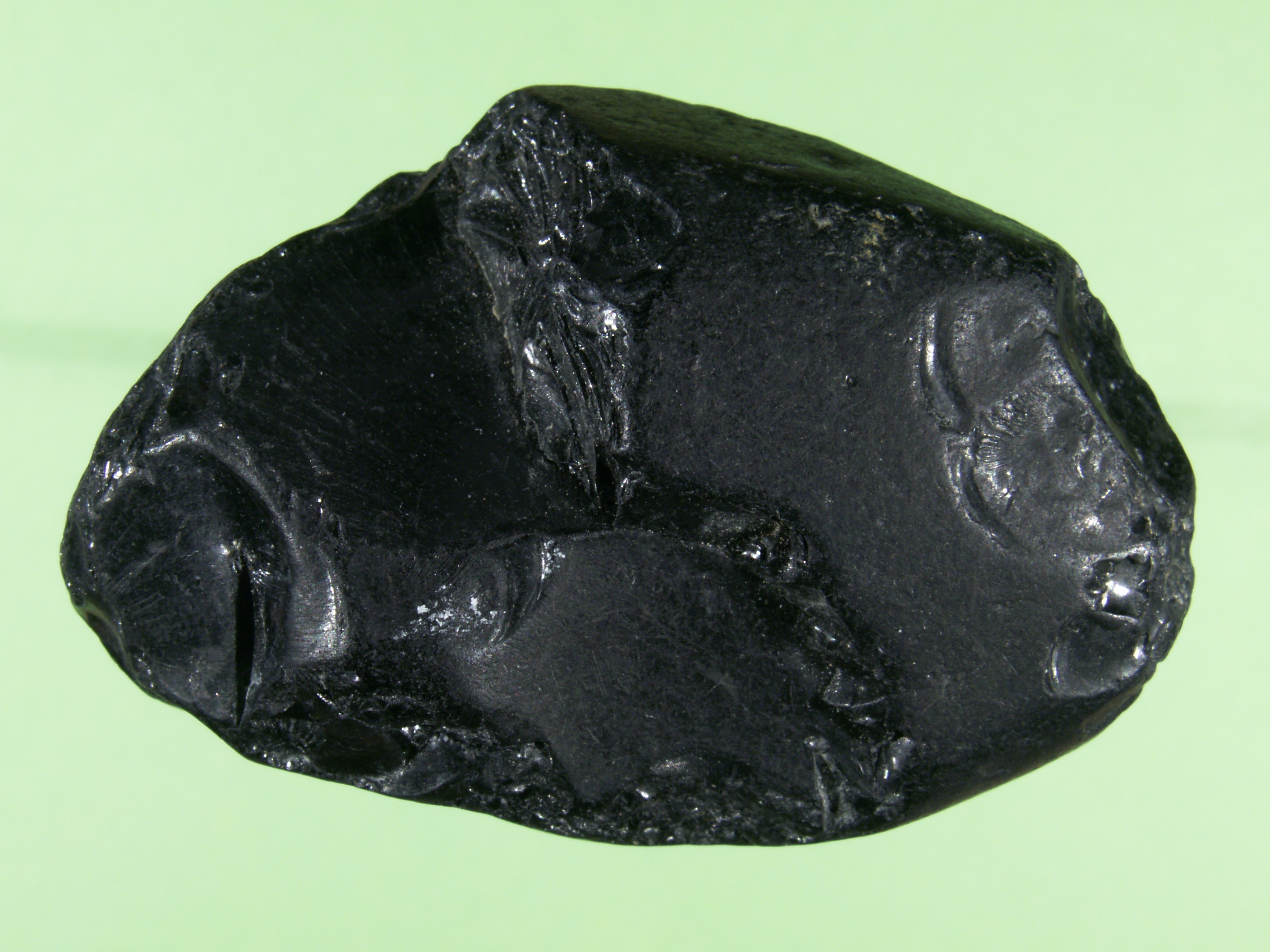 Amber from Bitterfeld, stantienite